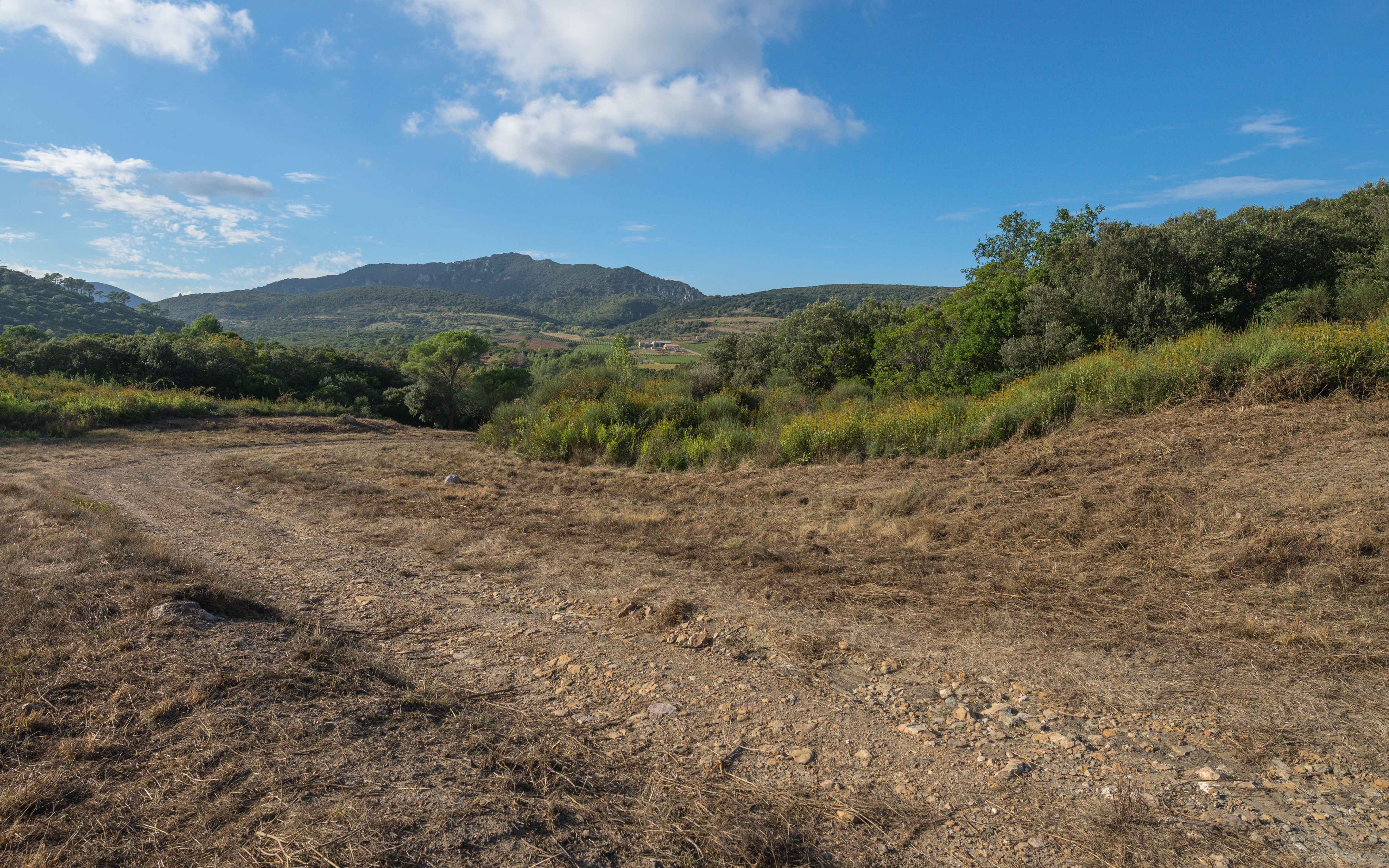 The mountain of Liausson ("Montagne de Liausson", in the commune of Liausson) from the commune of Villeneuvette in Southeast. Hérault, France.